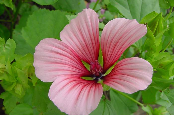 Malope trifida possibly the cultivar 'Pink Queen'